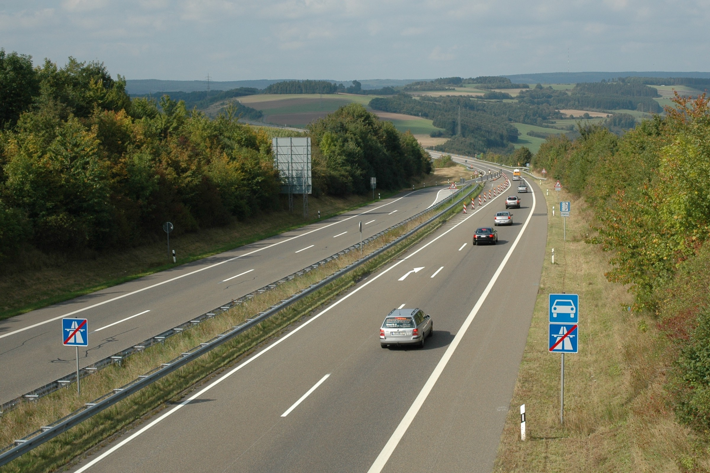 Change from 4 to 2 lanes on A60 (Germany)